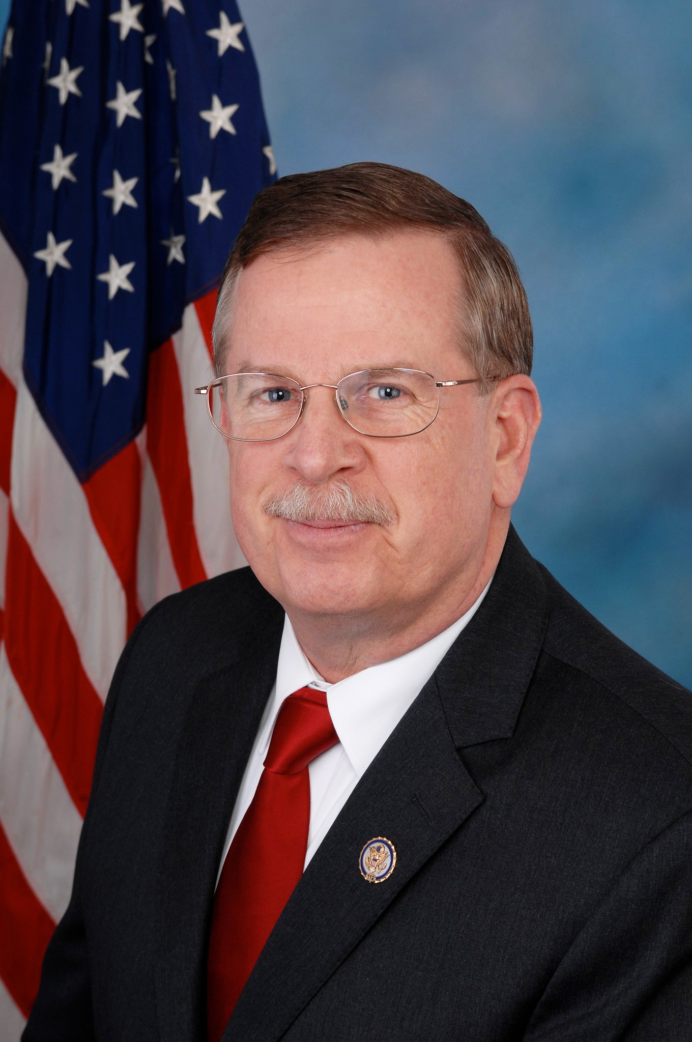 Official portrait of US Rep. Rich Nugent